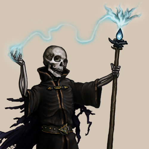 A variation of the file already in Commons of thei character giving it simply a background colour so it can be better viewed.